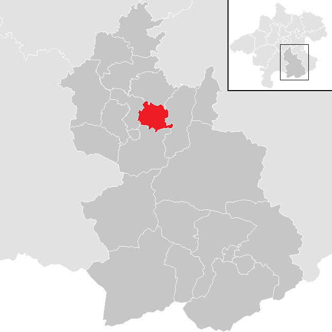 district Kirchdorf an der Krems